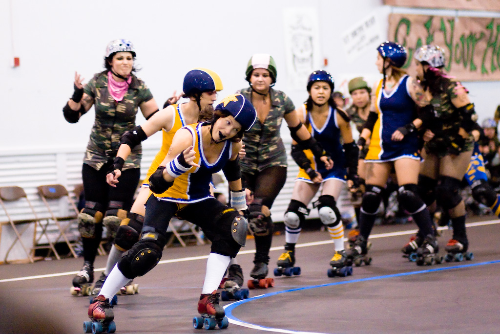 Lead jammer rocks out at Roller derby; Bay Area Derby Girls (All-female, amateur, flat-track roller derby league in San Francisco, CA): Richmond Wrecking Belles vs San Francisco ShEvil Dead